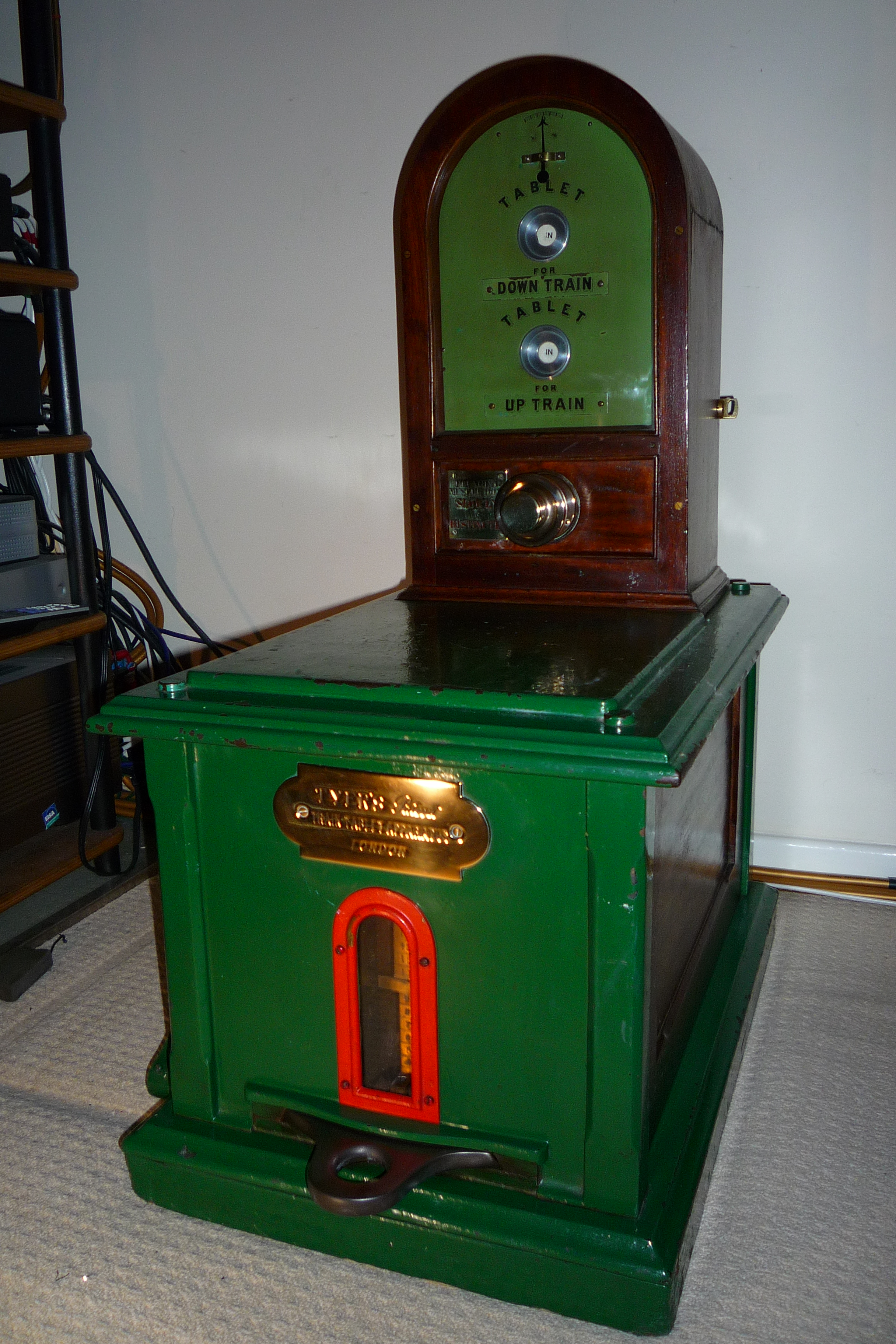 General Image of the Tablet Instrument with drawer shut.